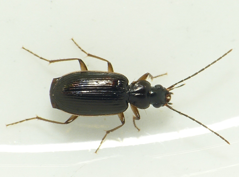 Badister collaris, location: The Netherlands - Rhenen - Blauwe Kamer - Gelderland